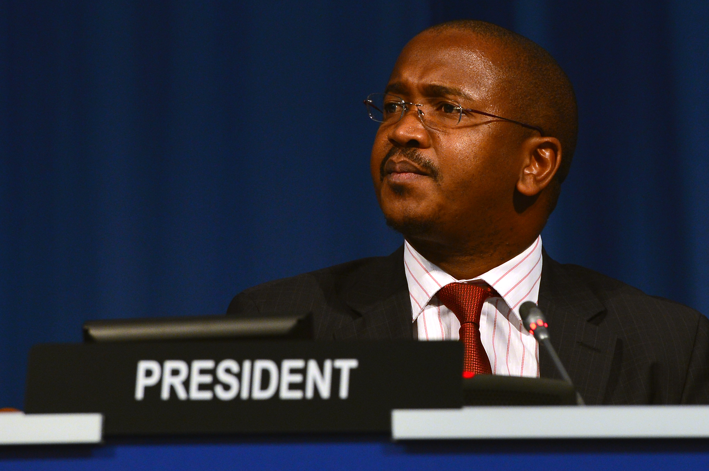 GC57 President, Mr. Xolisa Mfundiso Mabhongo from South Africa. IAEA General Conference. M-Building, IAEA Headquarters, Vienna, Austria. 19 September 2013. Photo Credit: Dean Calma / IAEA